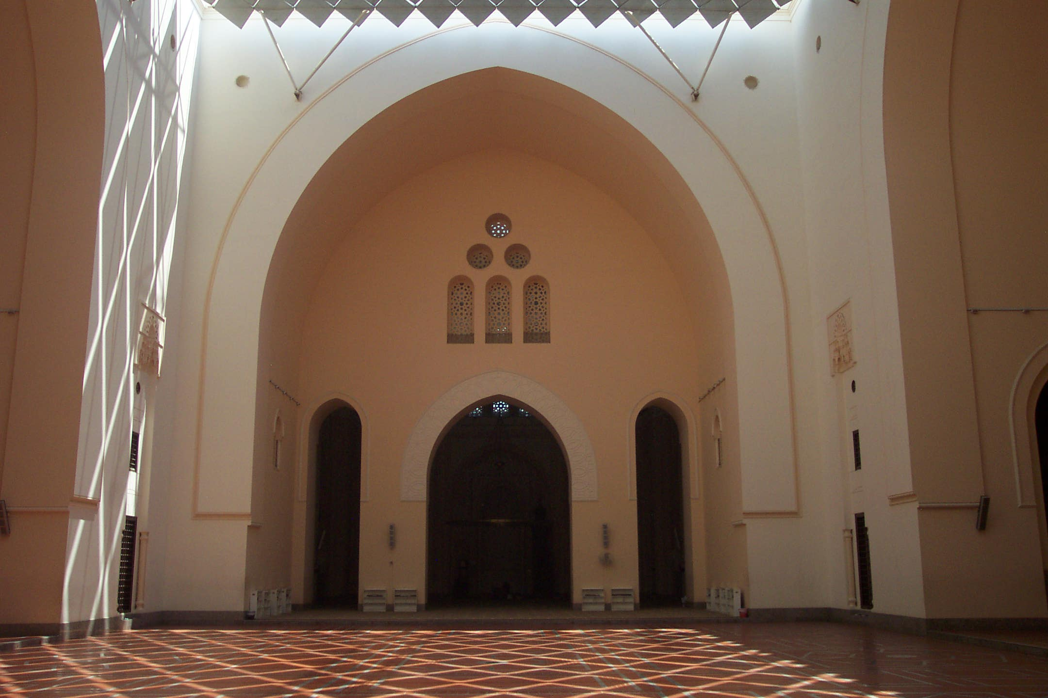 The Sahn of the mosque ((Sahn= Courtyard)) .